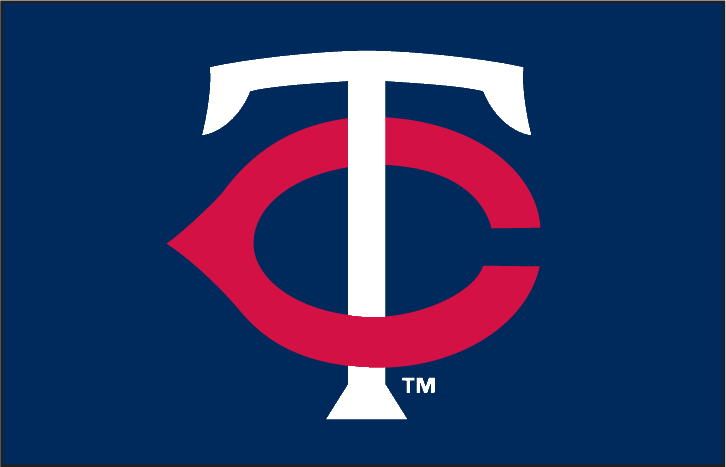 Minnesota Twins Insignia